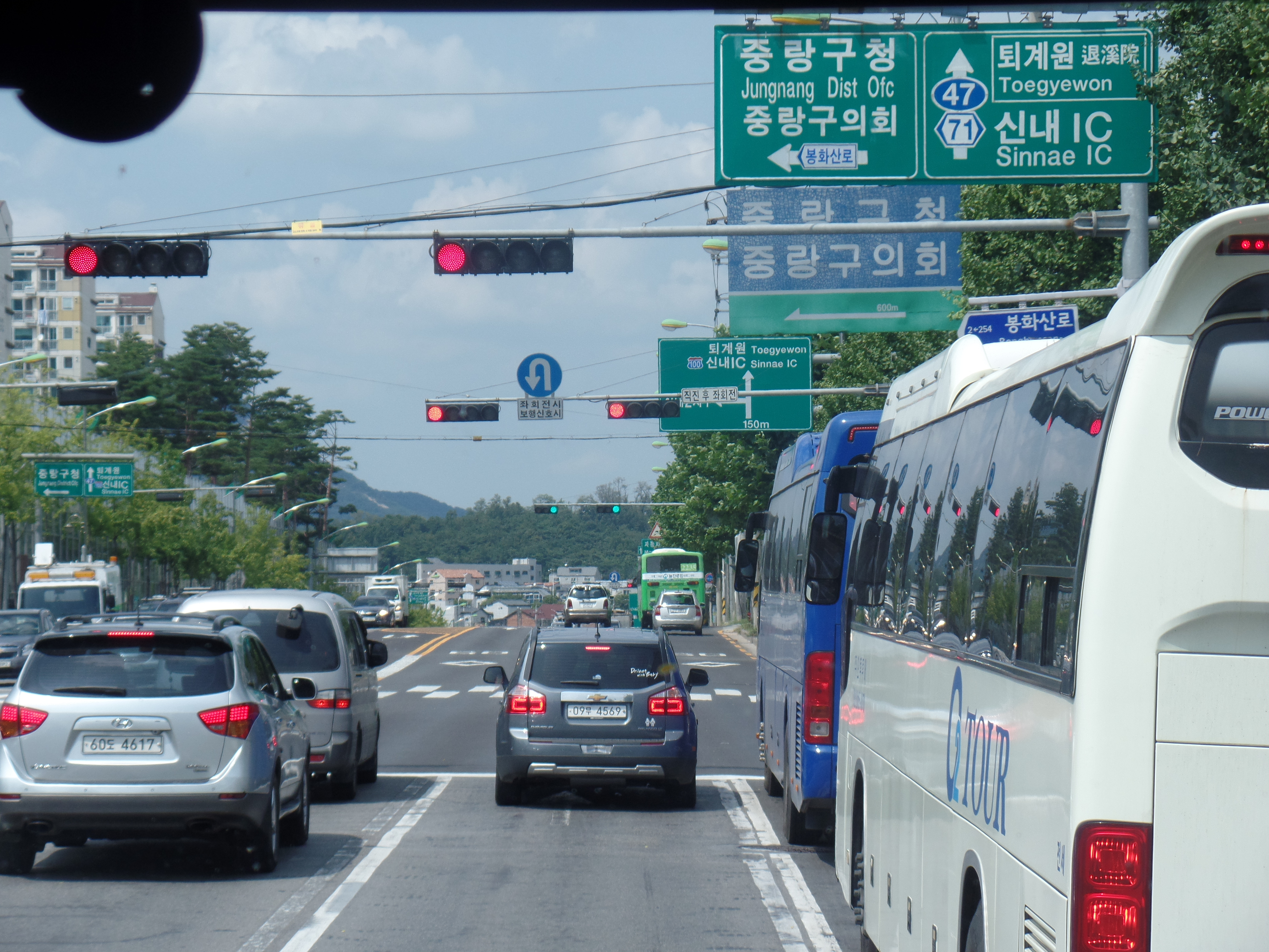 Republic of Korea National Route 47 Yongmasanro Neungsan Tway Intersection(Sinnae Interchange Direction)